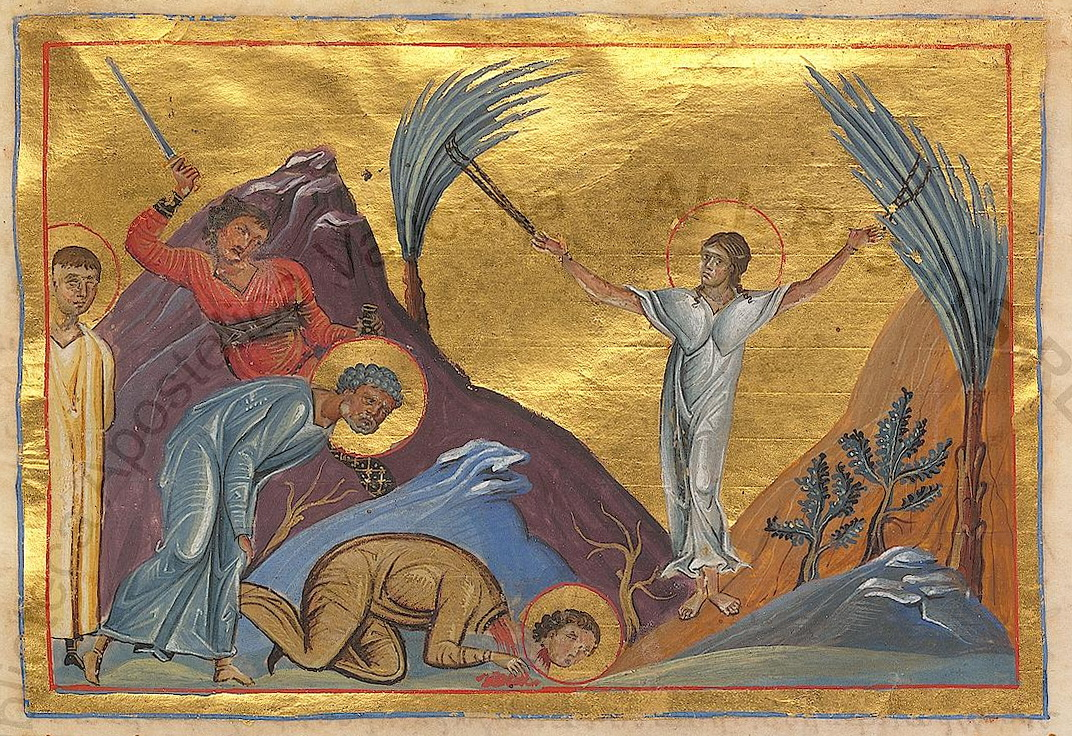 Matrona of Perge